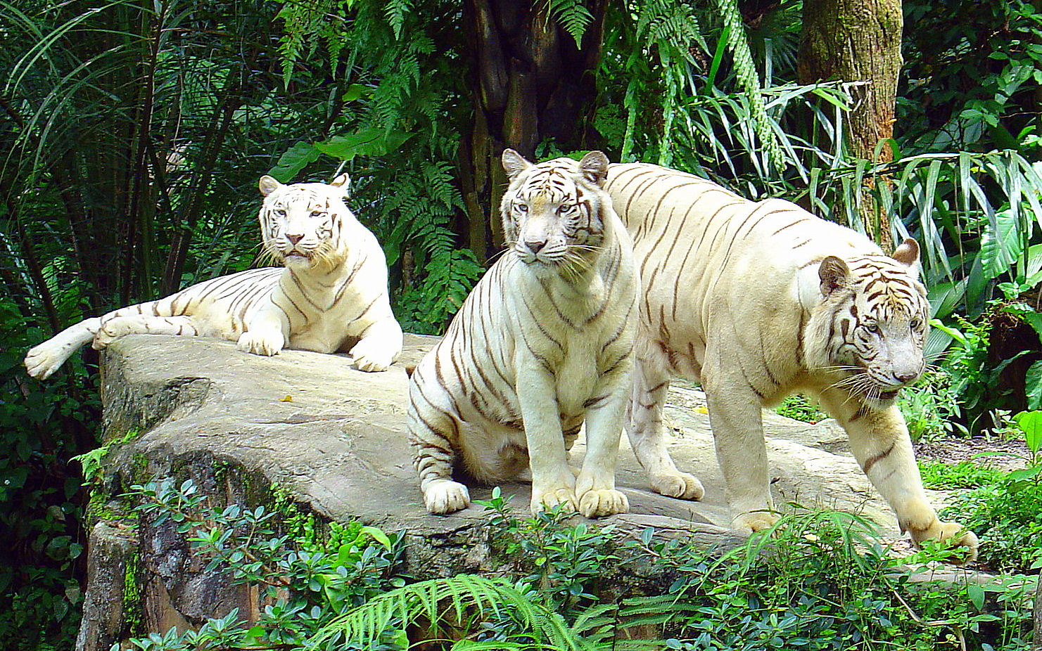 White tigers in the Singapore Zoo.